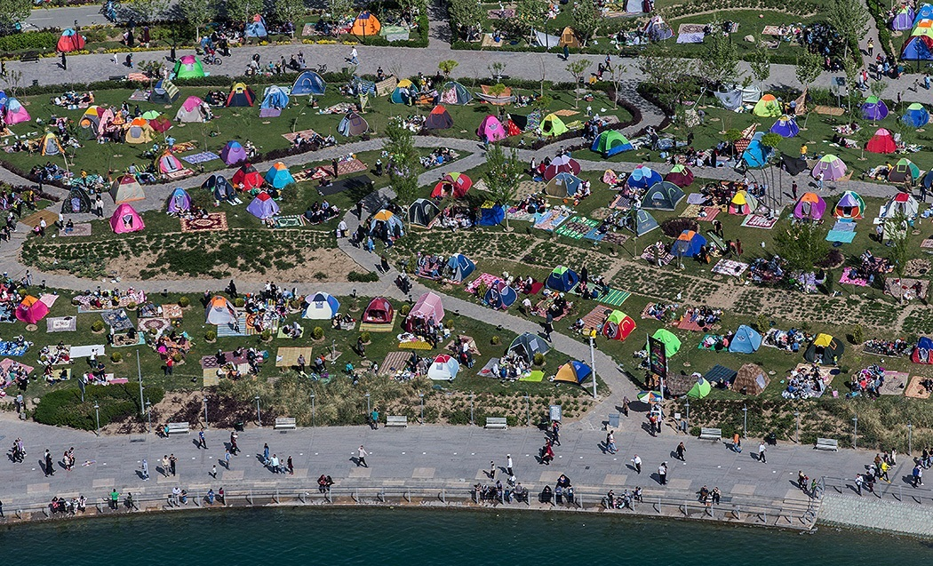 Aerial photographs of District 22 Tehran. see full gallery